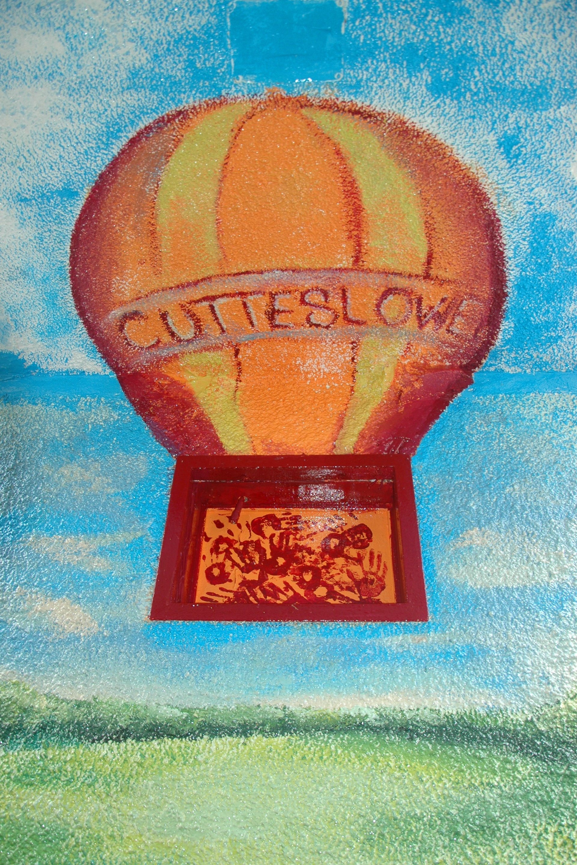 Mural of a not air balloon in a pedestrian underpass beneath the A40 Elsfield Way, Cutteslowe, Oxford, England